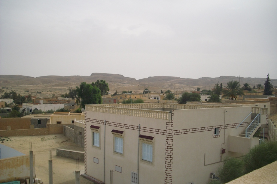 View of Redeyef city